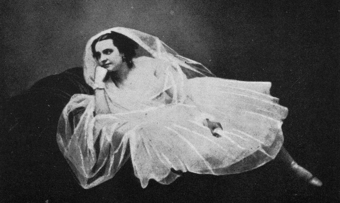 Photo taken by an unknown photographer at the Paris Opera of the Ballerina Carolina Rosati as Medora in the ballet "Le Corsaire, 1856. The photo comes from my own collection and was scanned by Mrlopez2681.